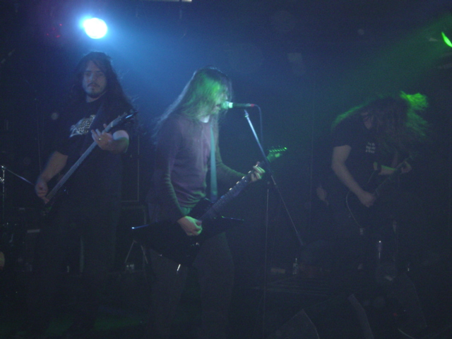 Hypocrisy at Glasgow Cathouse